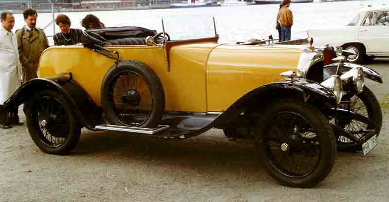 Bentley 3-Litre Drophead Coupé 1921 Chassis 19 wheelbase 9' 9½' Engine 20 low compression 3-litre, single Smith carburettor Reg SG 4636 delivered December 1921original body 2-seater by Gairn